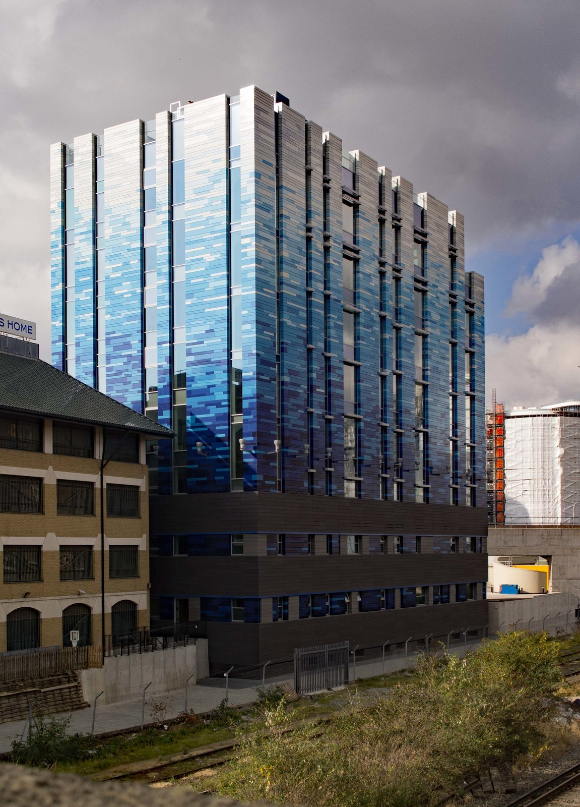 Battersea Dogs & Cats Home extension